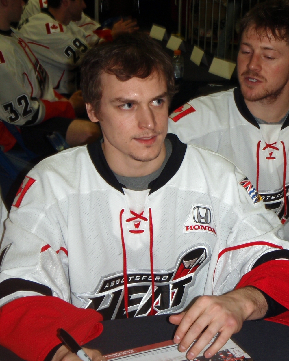 Members of the American Hockey League's Abbotsford Heat signs autographs for fans. Photo taken in Calgary, Alberta on February 18, 2011.